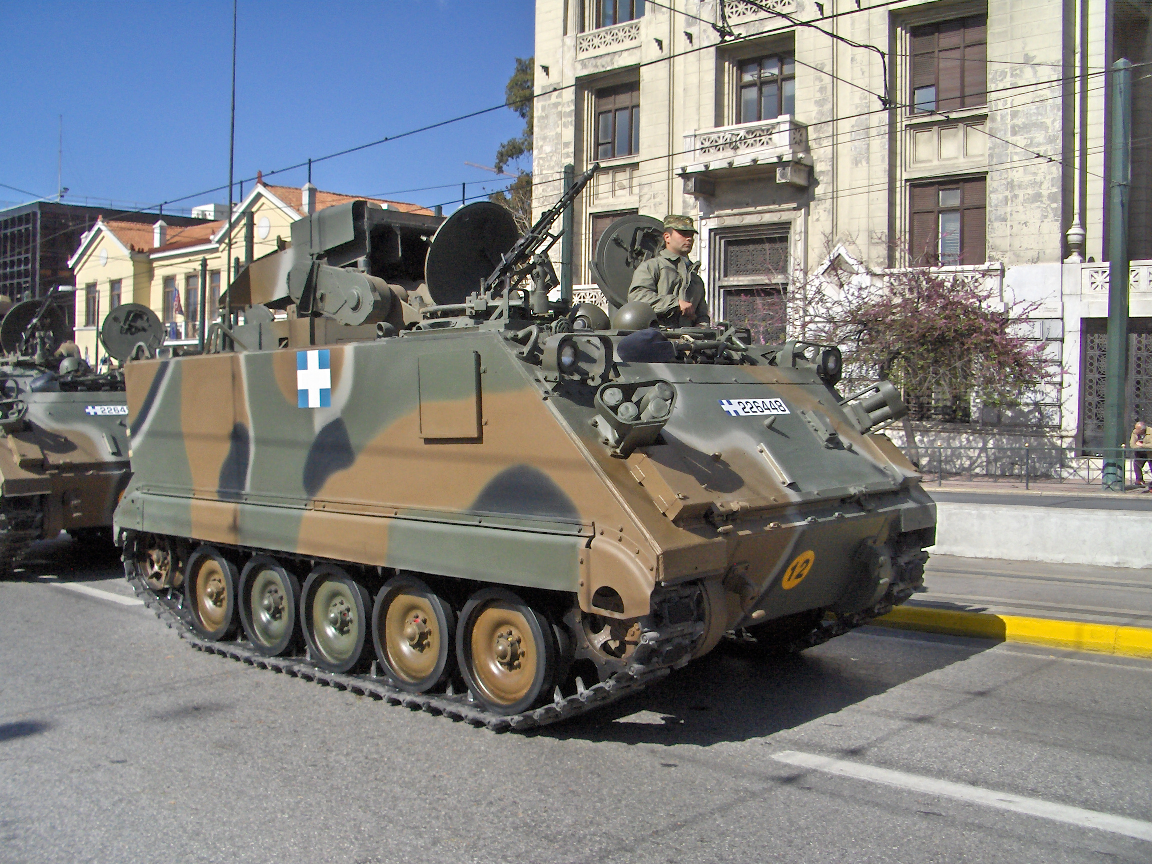 Hellenic Army armoured vehicle at the parade in Athens.